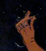 Young Pan and a dancing maenad. Apulian red-figured olpe.